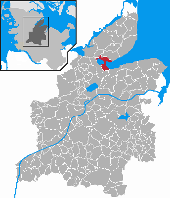 Locator maps of municipalities in Schleswig-Holstein - District Rendsburg-Eckernförde